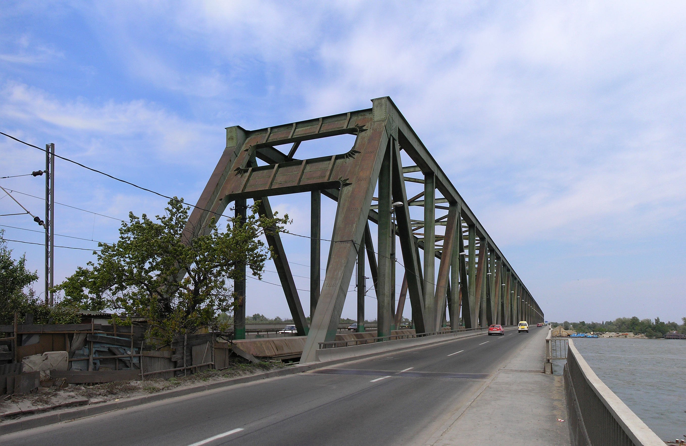 Truss construction of the Pančevo Bridge. Serbia, Belgrade.